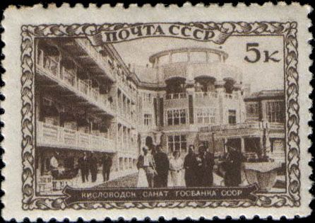 The Soviet Union 1939 CPA 706 stamp (Kislovodsk). Seriesː Caucasian Health Resorts of the USSR